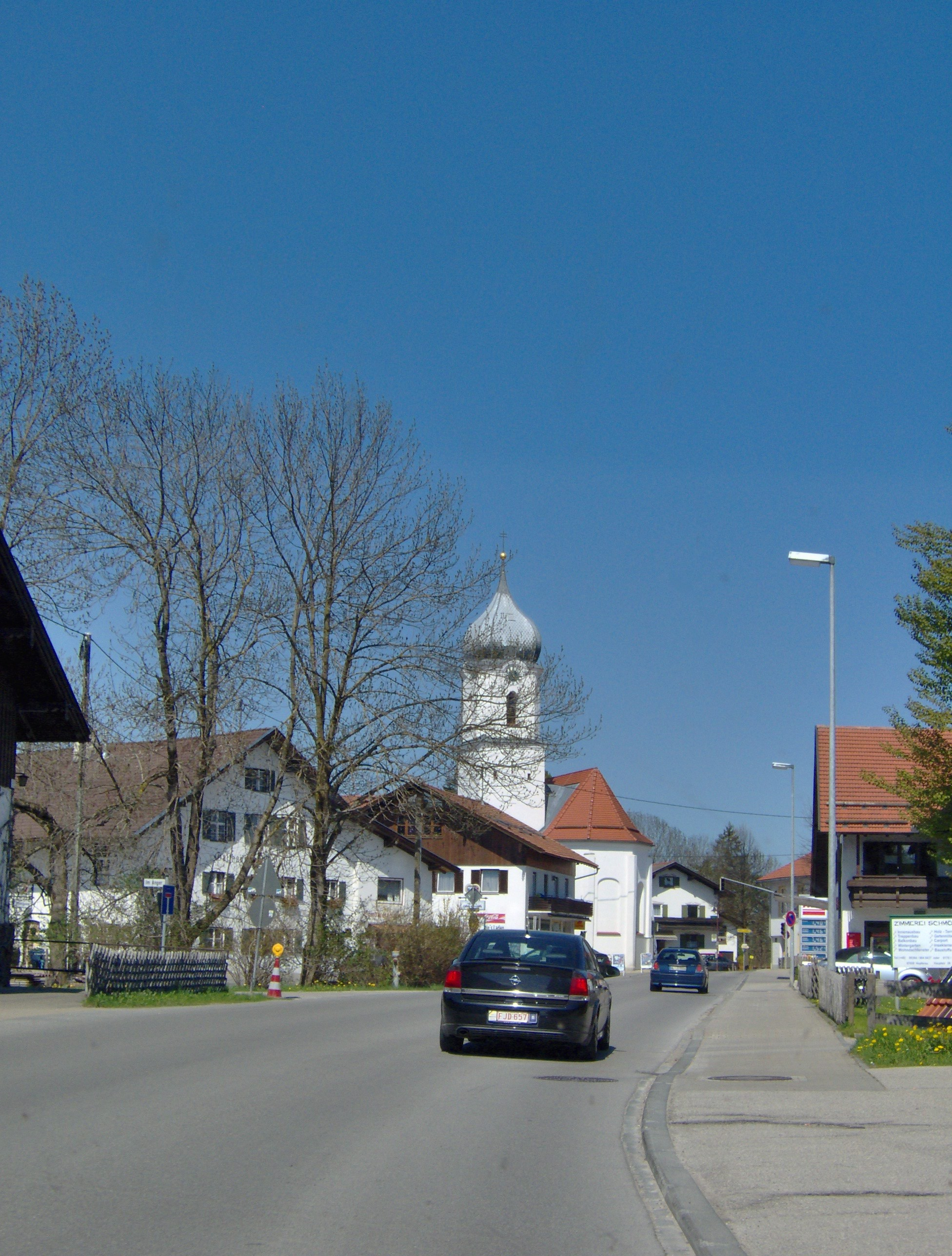 View into the main street of the village of Hopferau, Landkreis Ostallgäu, Bavaria, Germany